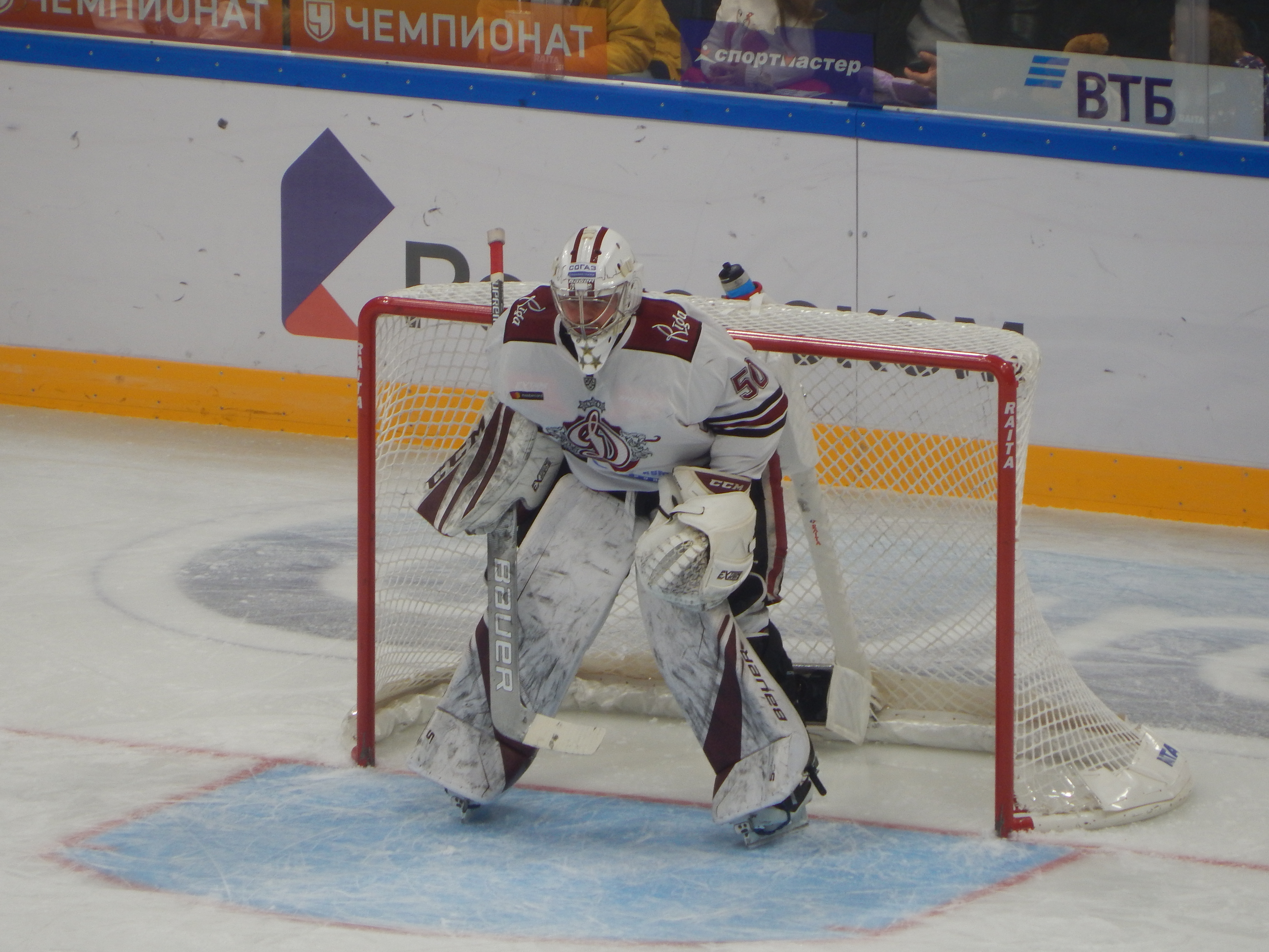 KHL regular match between Dynamo Moscow and Dinamo Riga. This game was held at Dinamo Stadium in Moscow on January 6, 2019.